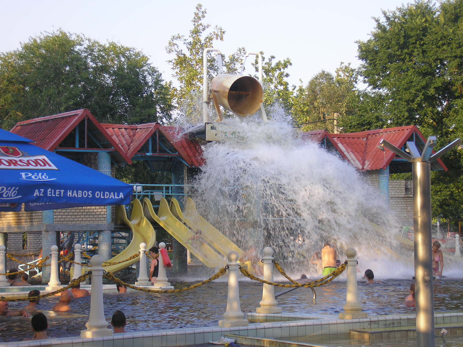 Cserkeszőlő 2015